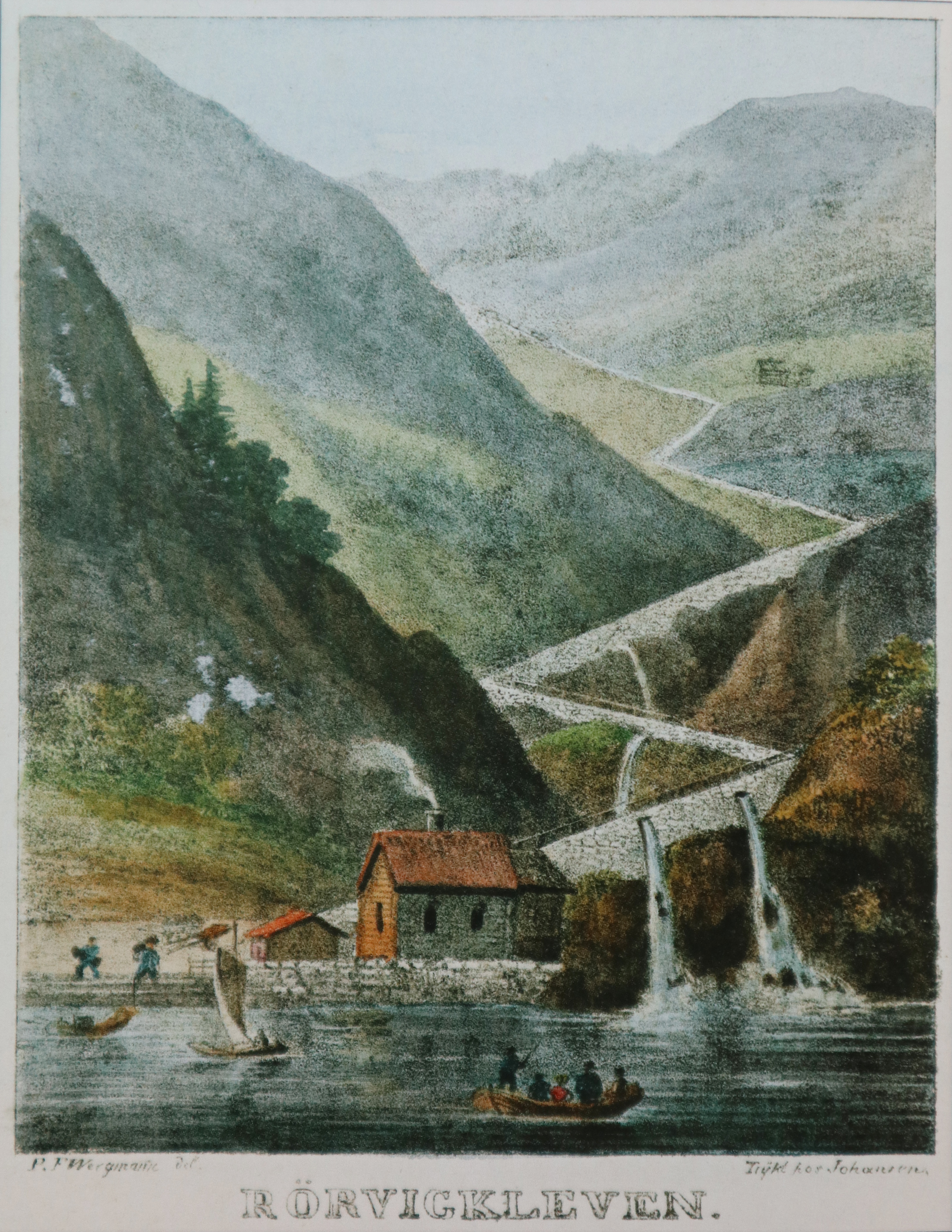 Road Rørvigkleven by Fedafjorden in county Vest-Agder